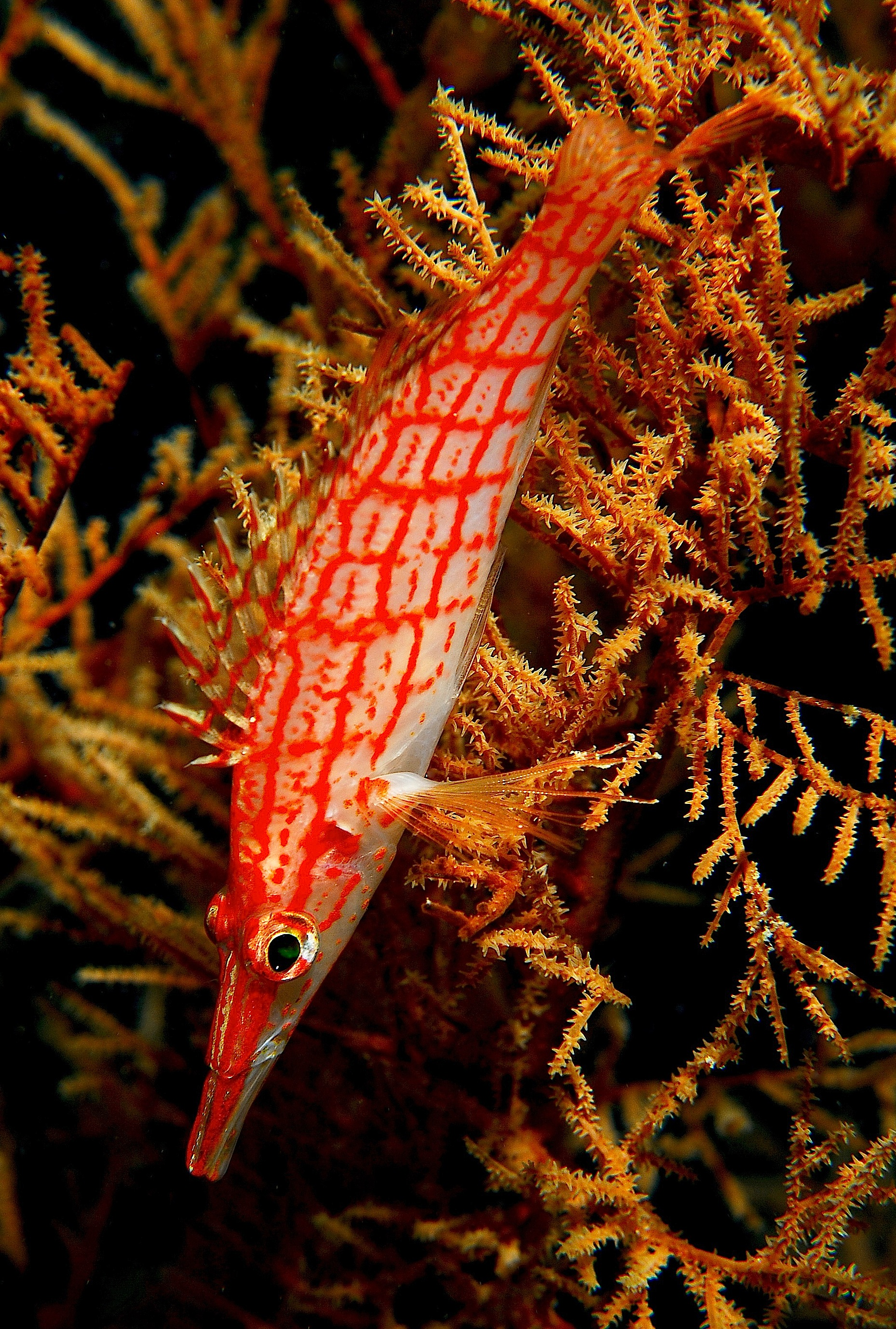 Can be easily distinguished by its colors and by very elongated snout. up to 10cm. An active and restless species,quite shy and often very difficult to approach. Requires a great deal of patient and a steady hand to get good results with. Since it aiways tends to flit on the opposite side of the black coral colony putting it between itself and the photographer.Longnose hawkfish